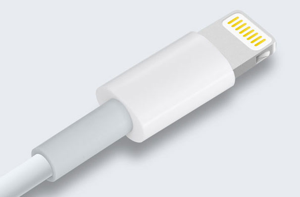 Just an iphone Lightning port